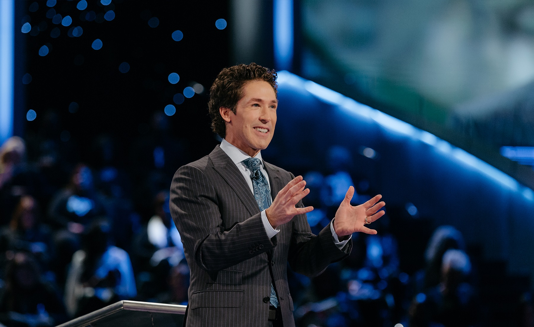 Joel Osteen preaching at Lakewood Church.